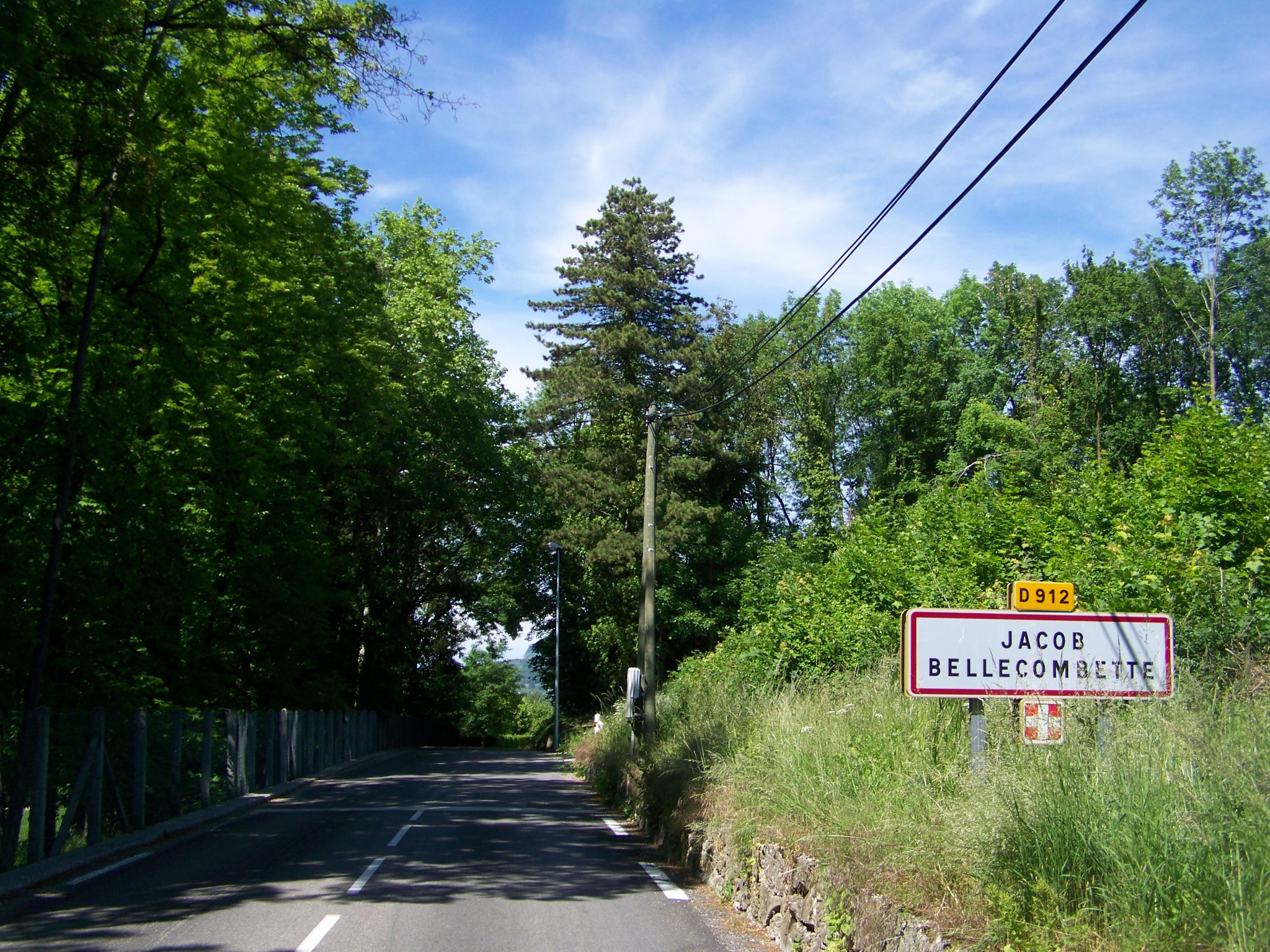 Sight of the RD 912 previous RN 512) road entering into the French commune of Jacob-Bellecombette, last town before Chambéry, in Savoie.